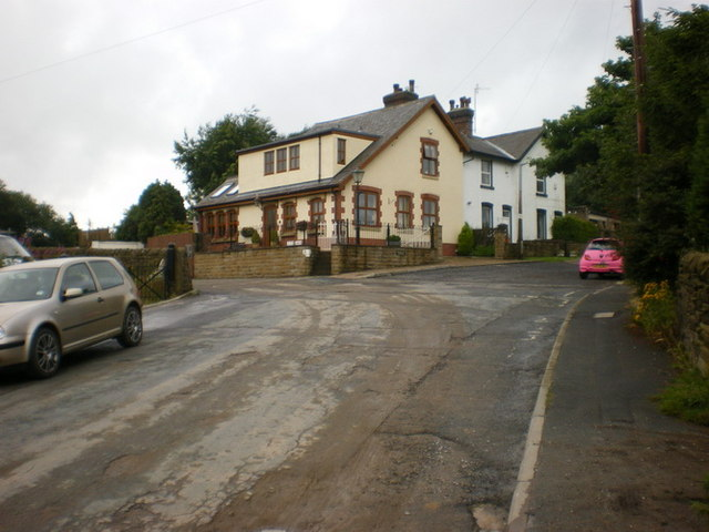 What was Wilsden Railway Station